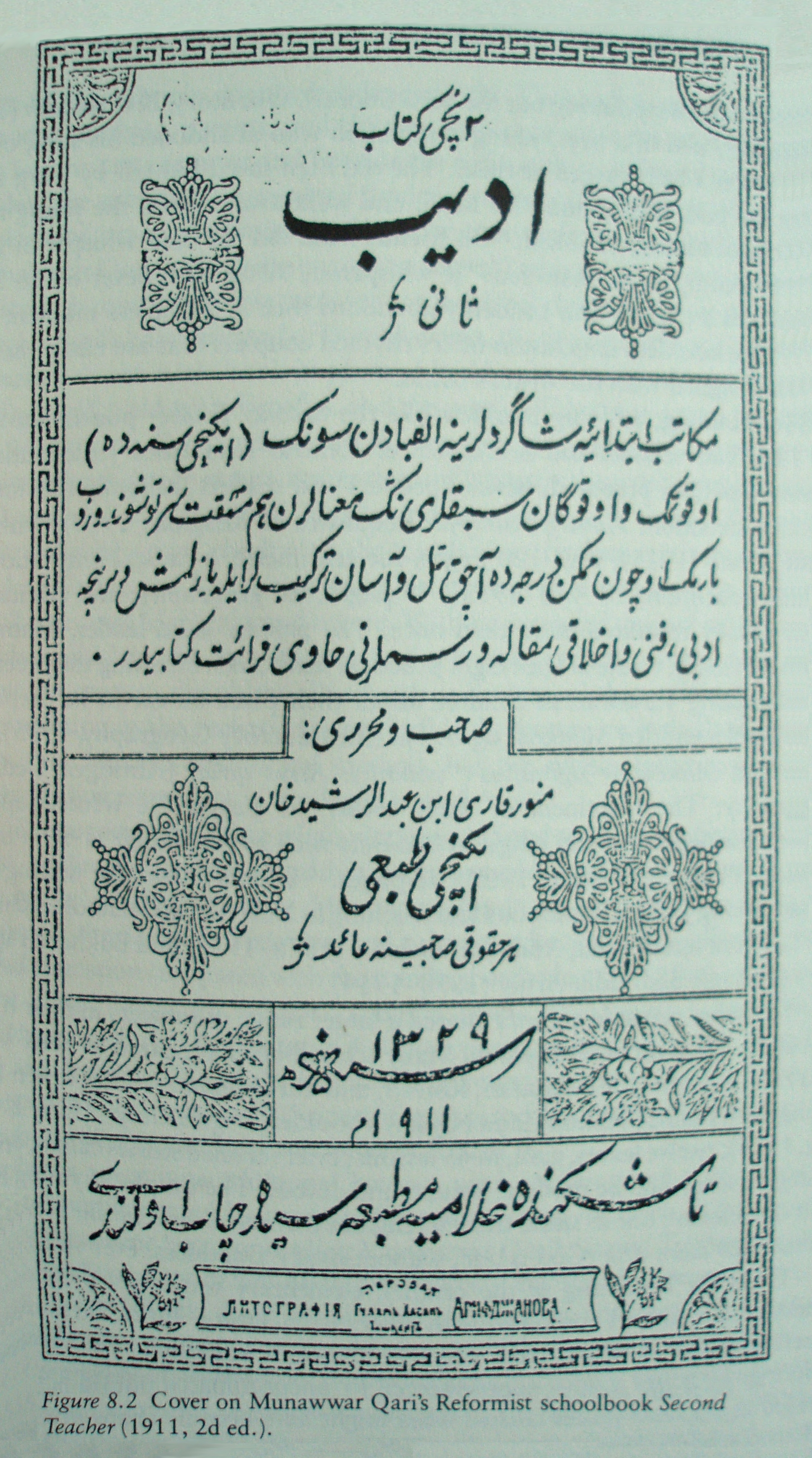 Cover of Adib-e sani by Munavar Ghori Abdurashidkhon written in Nastaʿlīq script